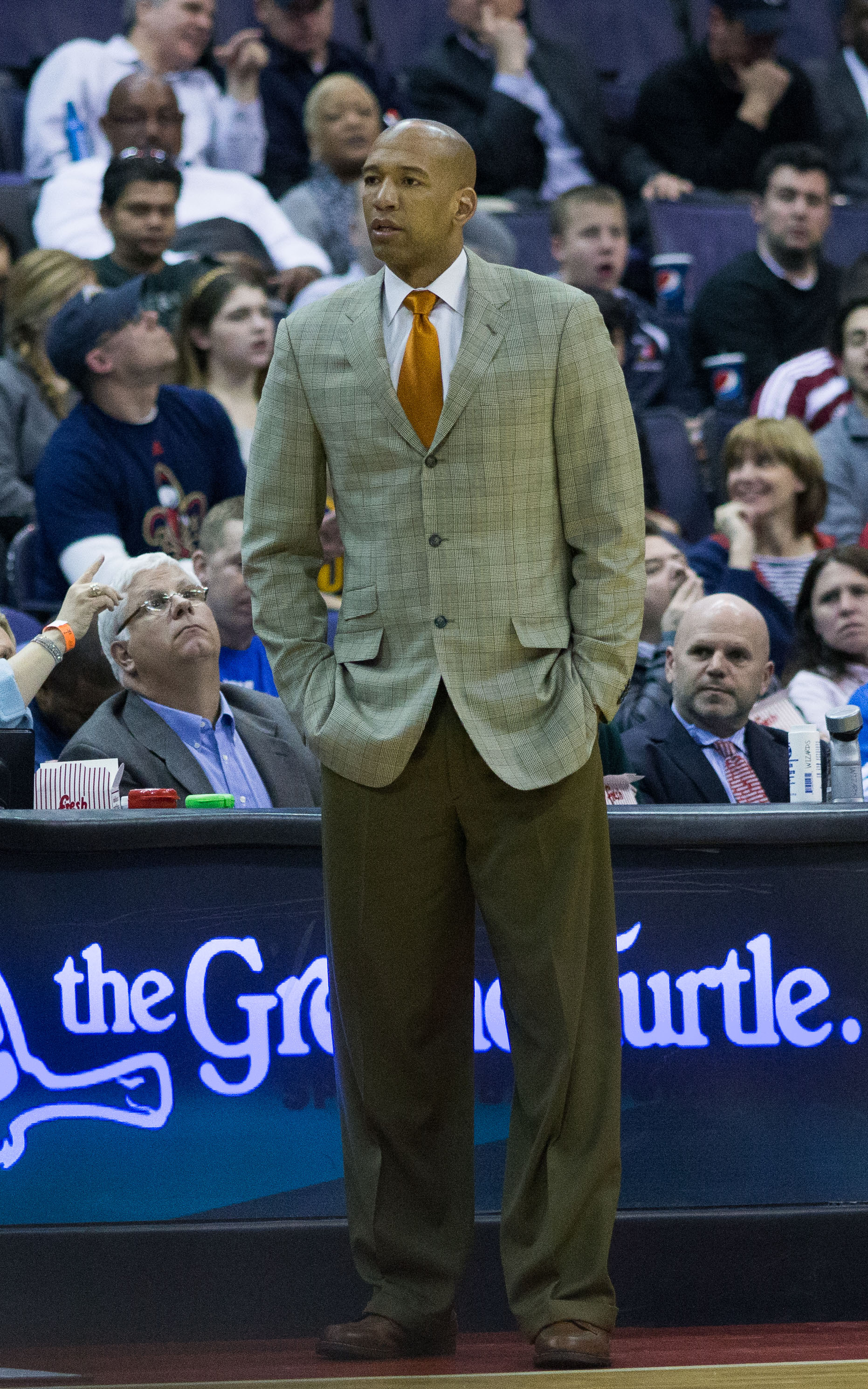 New Orleans Hornets at Washington Wizards March 15, 2013